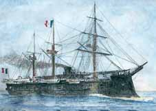 Cuirassé Marengo